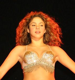 Image of Shakira from Flickr ID:311081264